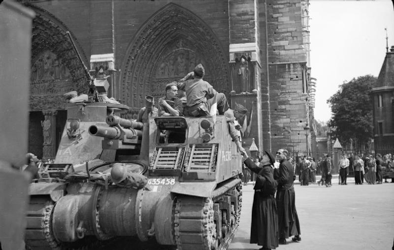 The Campaign in North-west Europe 1944-45 Priest 105mm self-propelled guns of the French 2nd Armoured Division in front of Notre Dame in Paris, 26 August 1944.